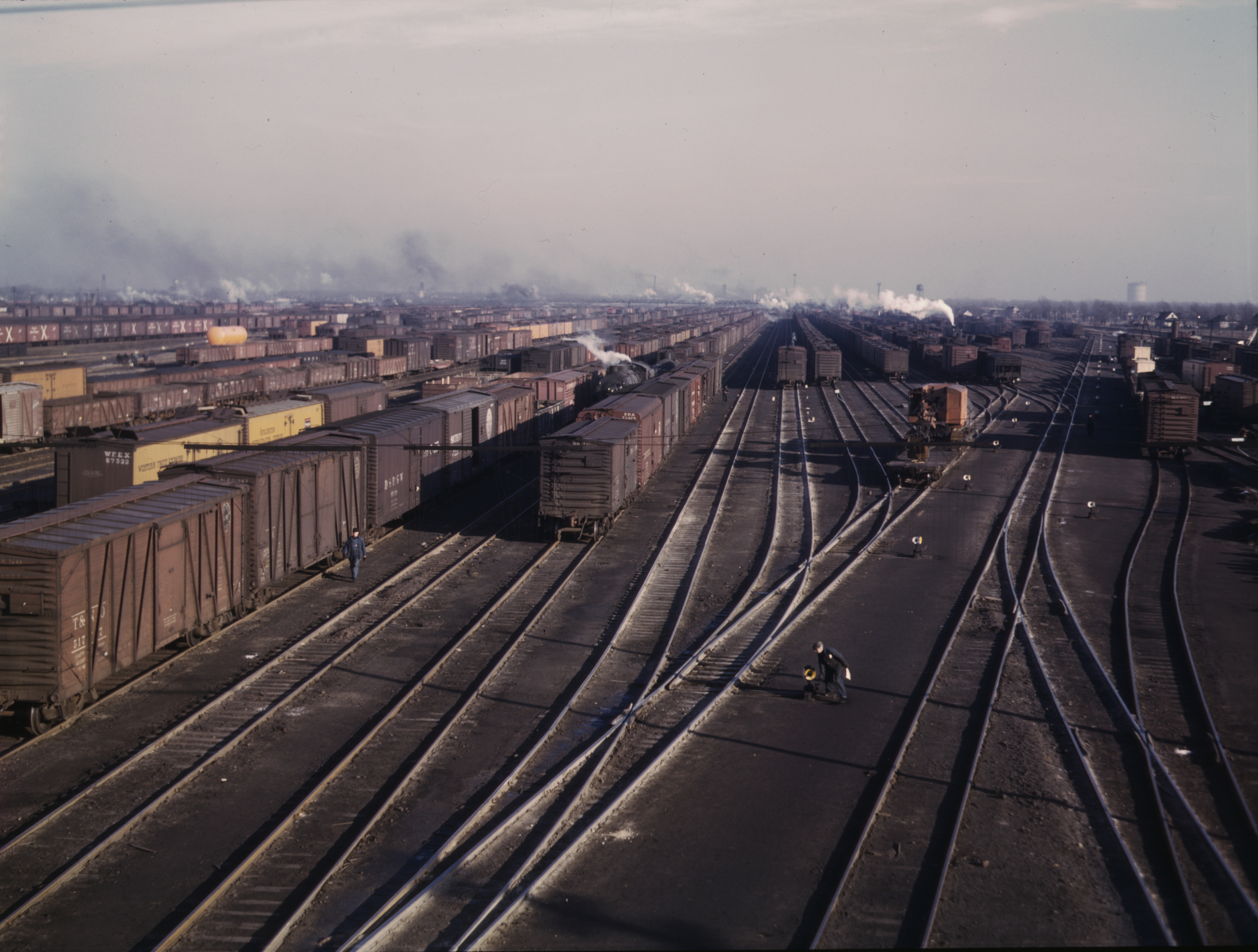 Title: View of a classification yard at C & NW RR's Proviso yard, Chicago, Ill.